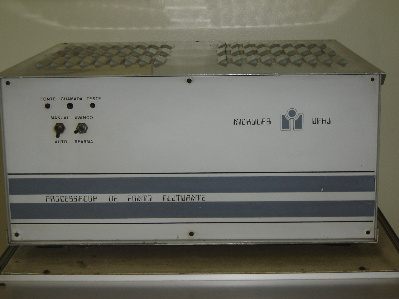 floating point processor, developed by NCE-UFRJ